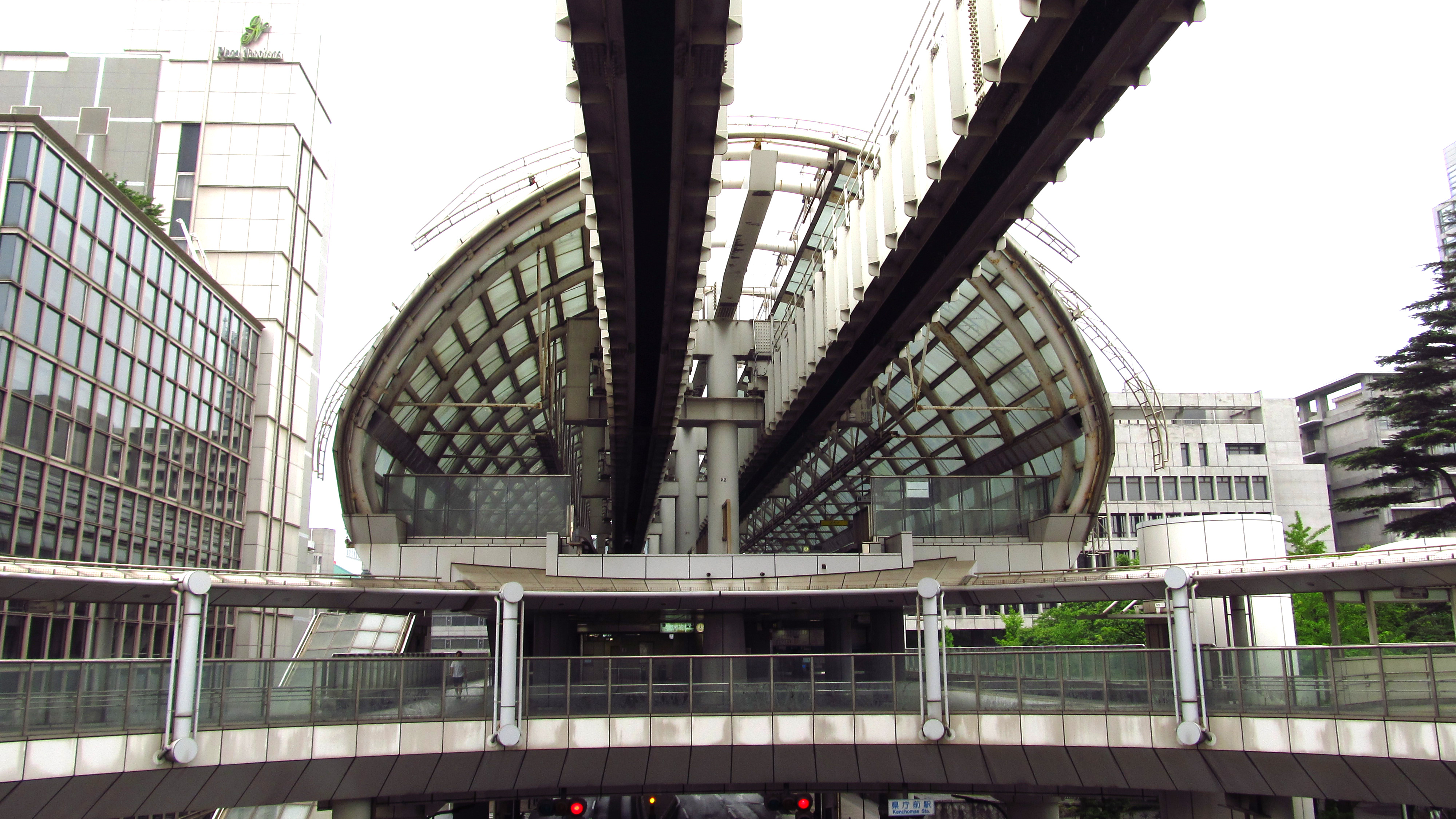 The view of the entrance to Kenchō-mae Station on on the Chiba Urban Monorail in Chiba city, Chiba prefecture, Japan